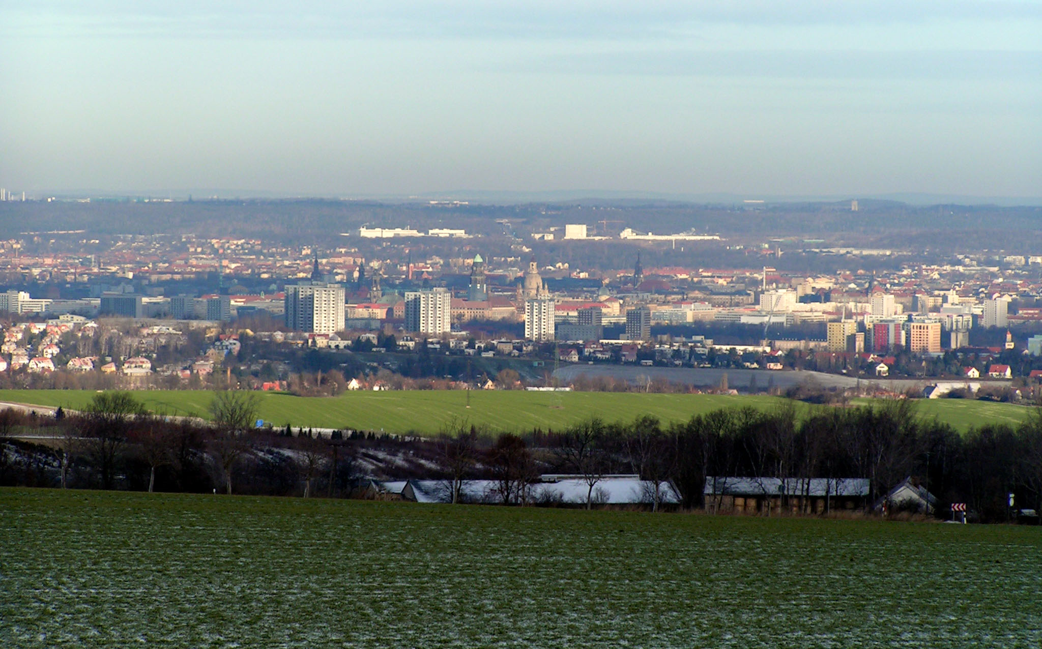 View of Dresden, Saxony, Germany from the "Babisnauer Pappel"